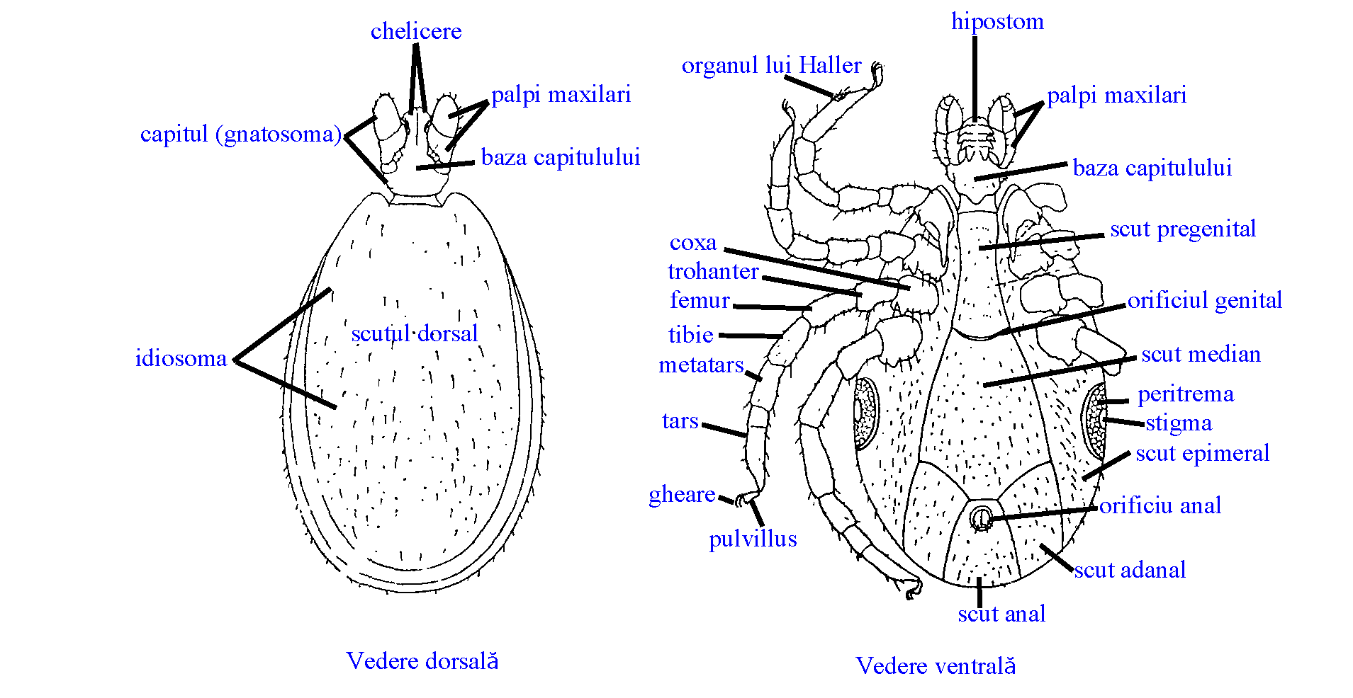 Ixodes ricinus male